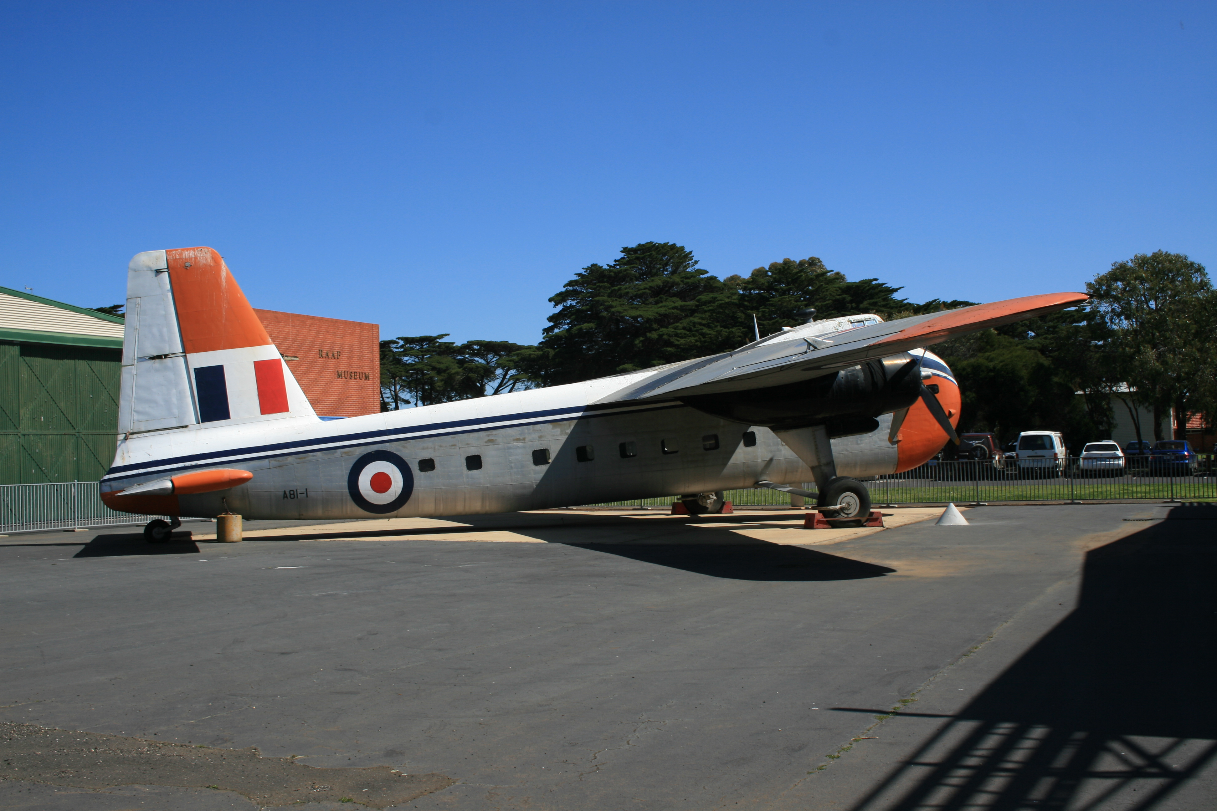 The Royal Australian Air Force operated four Bristol Freighters from the late 1940s until the late 1960s. One is preserved in a museum today. Digital image of A81-1 taken by YSSYguy on 25 September 2008 at the RAAF Museum, Point Cook, Victoria, and uploaded for use in the article about No. 34 Squadron RAAF.